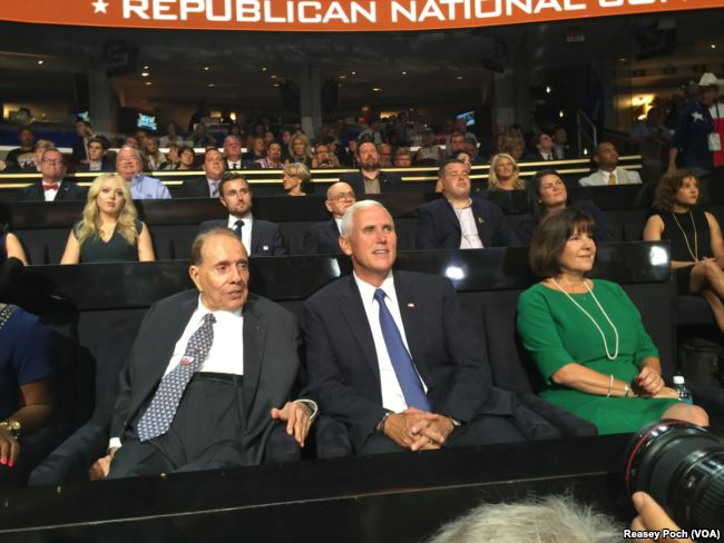 Republican vice presidential candidate Mike Pence, right, the governor of Indiana, chats with former Republican presidential candidate Bob Dole during the opening day of the Republican National Convention in Cleveland, July 18, 2016.